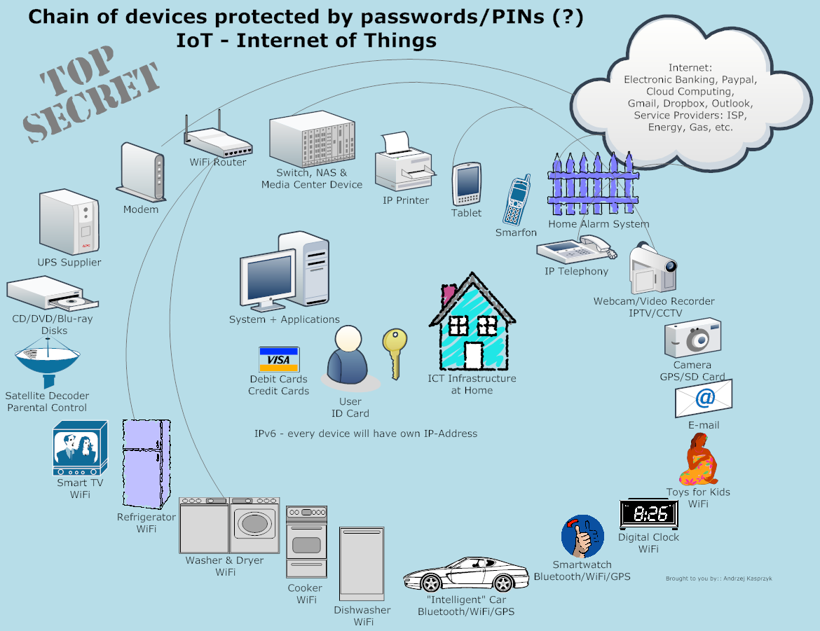 Chain of home devices (including IoT) with passwords or pin